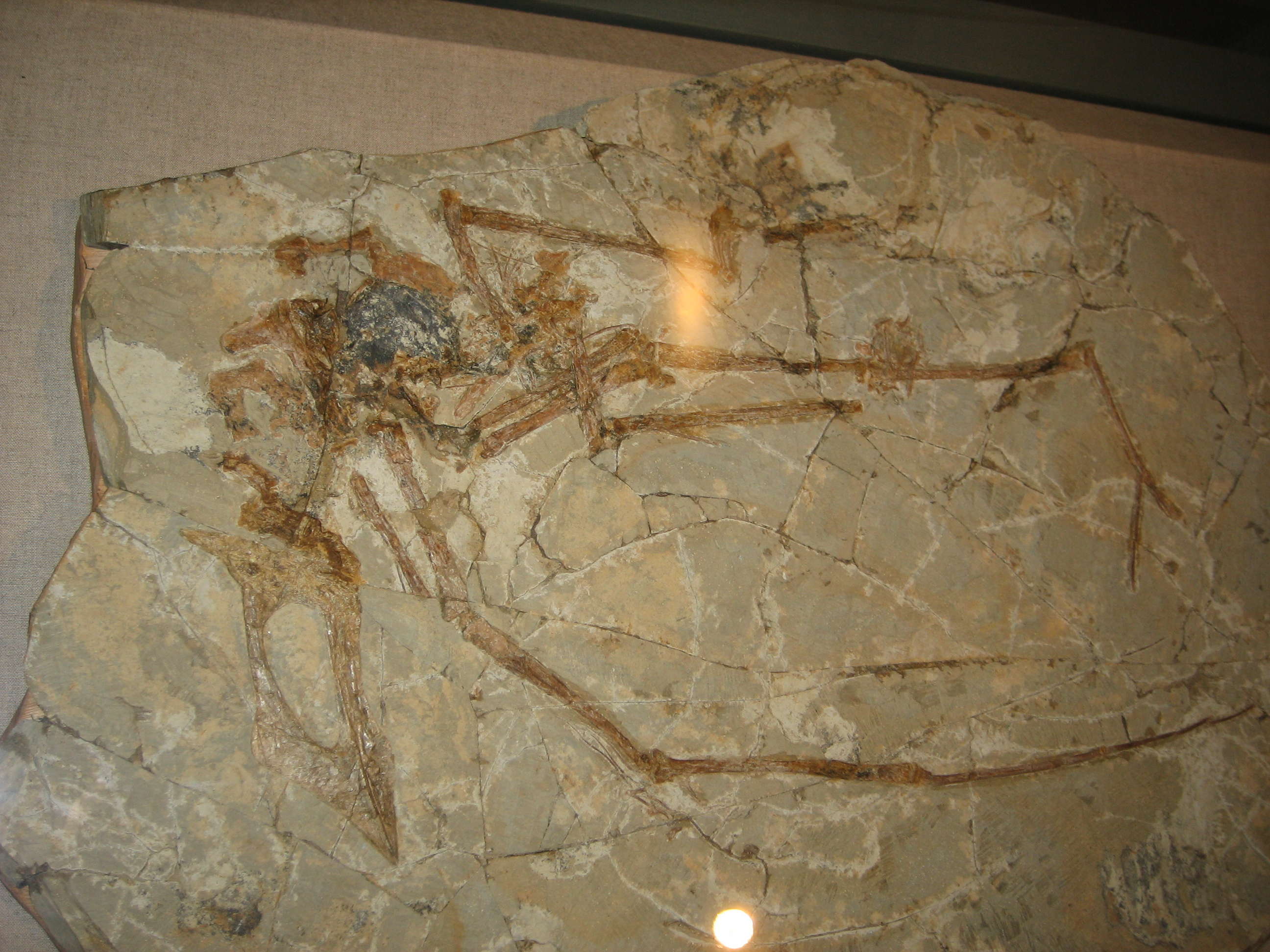 Photos from our trip to Hohhot, Inner Mongolia, China for National Day Holiday 2007. This is the Inner Mongolia Museum, the biggest museum in the region. Unfortunately, most of the museum wasn't labeled in English, so I can't give precise information about these artifacts.